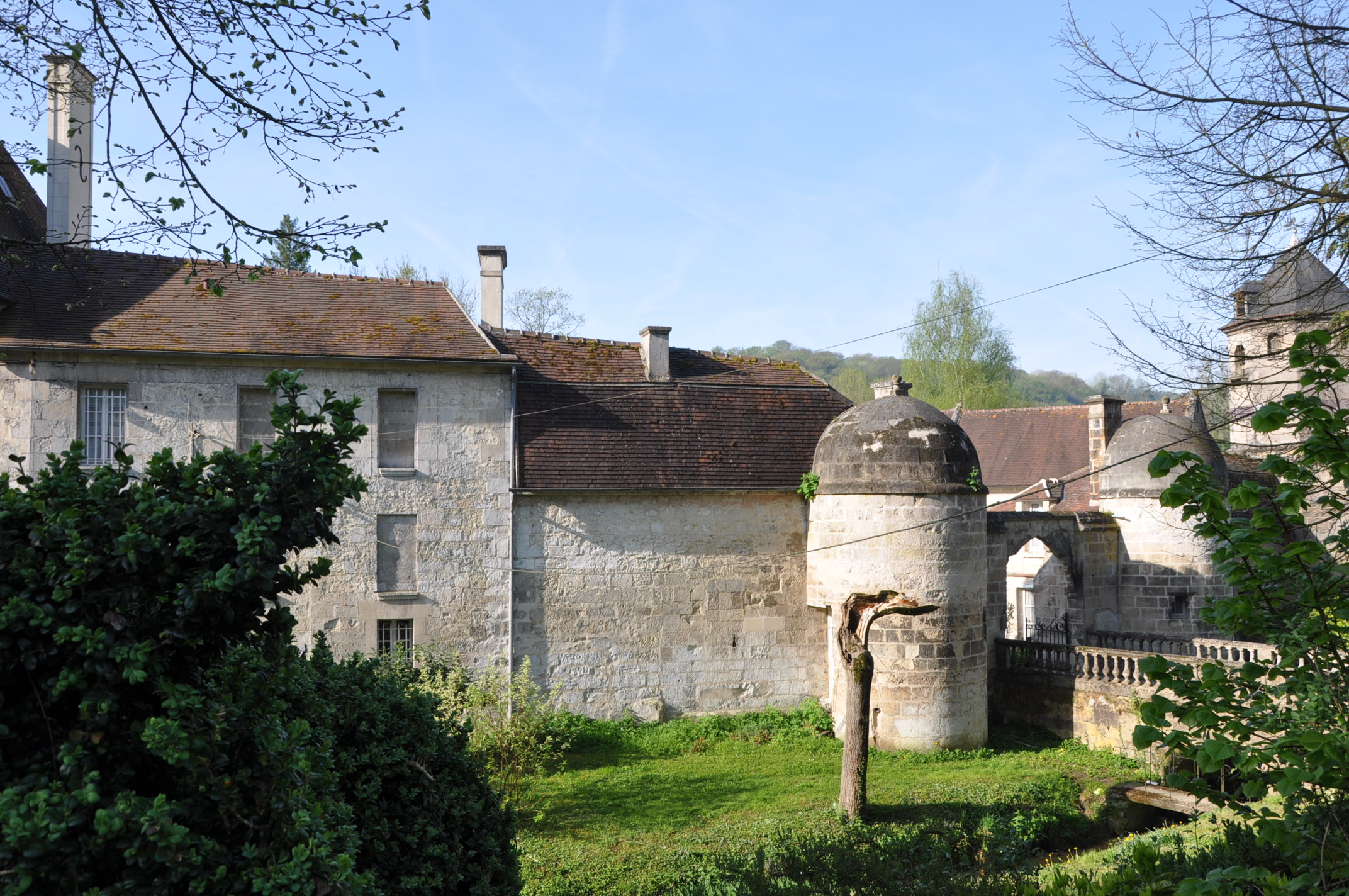 Château de Cuise